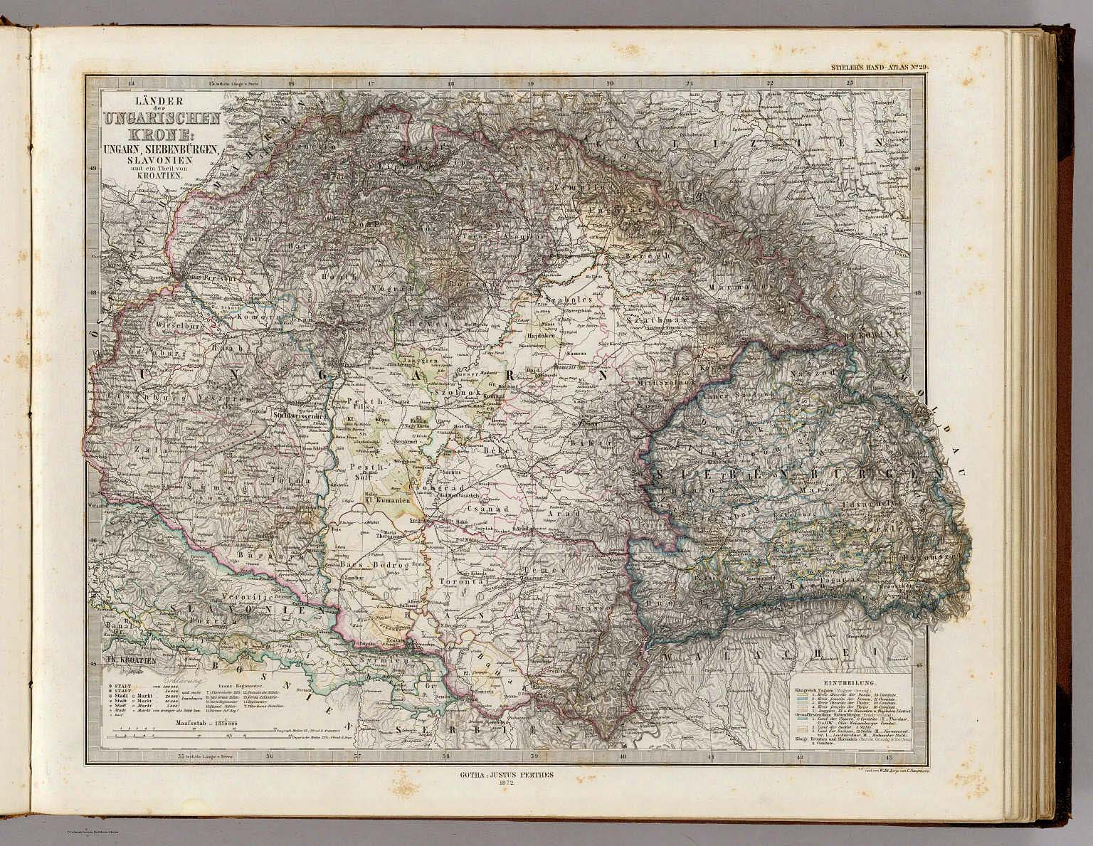 Lands of The Hungarian Crown (Hungary, Transylvania, Slavonia), (1875)